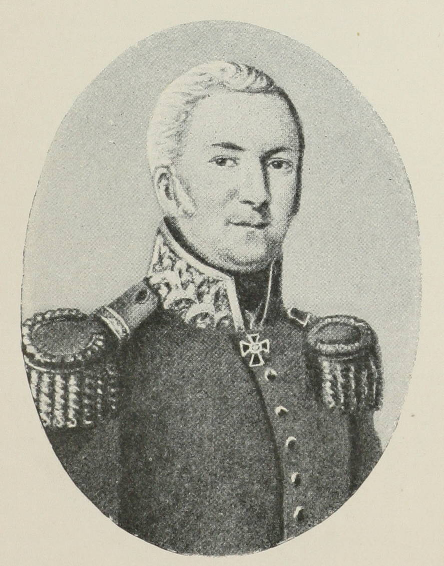 Gogel, Ivan Grigoryevich.